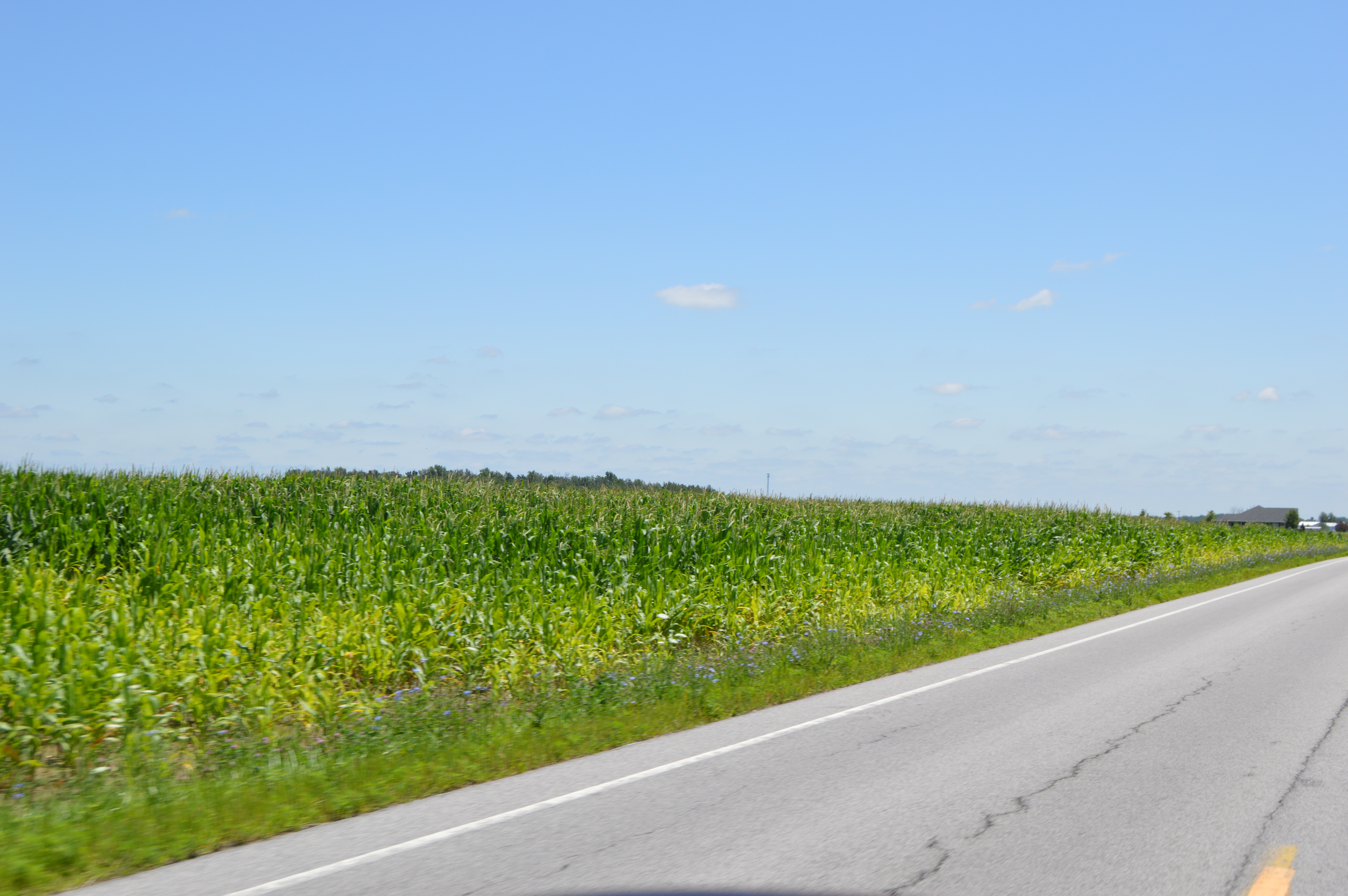 A cornfield on the northeastern side of State Route 189 southeast of Ottoville in far eastern Monterey Township, Putnam County, Ohio, United States.